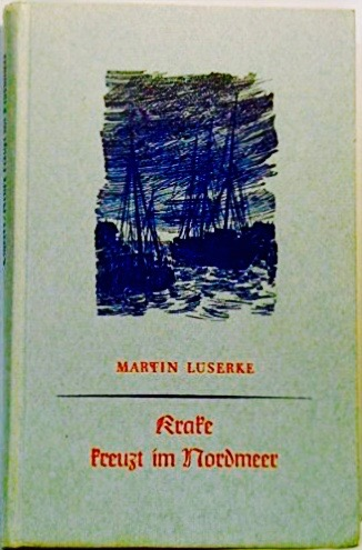 Book cover of Krake kreuzt im Nordmeer by German author Martin Luserke (1880–1968), published by Philipp Reclam jun., Leipzig, Germany. Its initial release was in 1937. With drawings by Willy Thomsen.